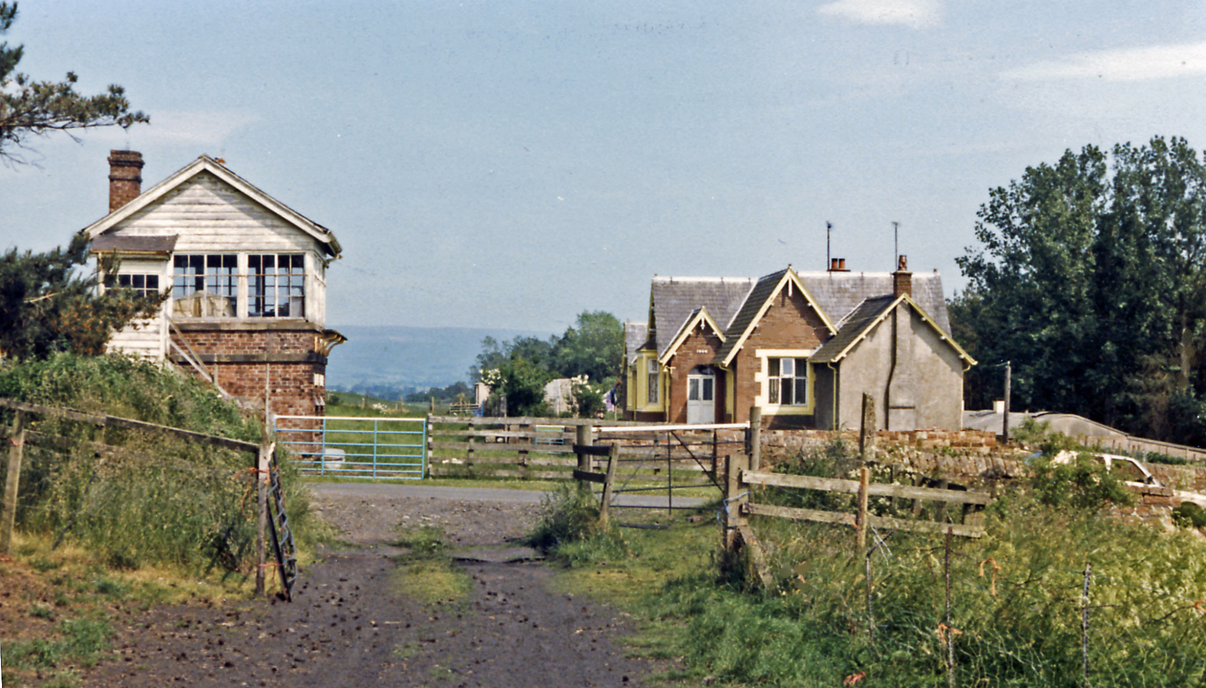 Cliburn station (remains), 1986, View eastward, towards Kirkby Stephen: ex-NER Penrith - Kirkby Stephen - Barnard Castle - Darlington line. This is near Penrith, at the western end of this celebrated trans-Pennine 'Stainmore Line', which closed finally on 22/1/62, and Cliburn station had closed on 17/9/56 - 30 years before this photograph. So the survival of the signalbox is remarkable, even if the station has been restored privately.